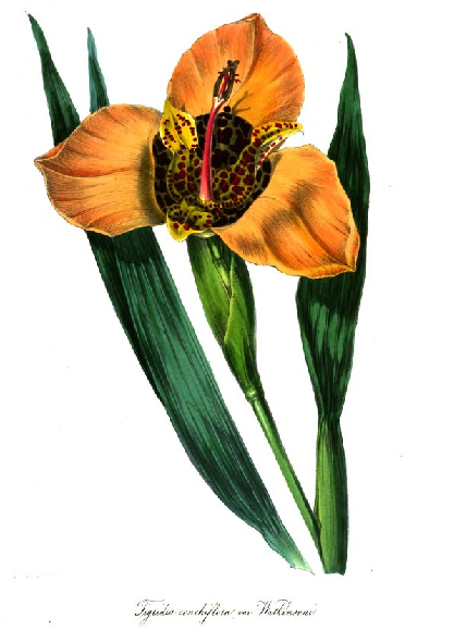 Tigridia Conchiflora Watkinsoni, a lily first grown by John Horsefield of Manchester, UK